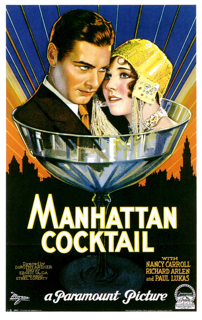 Poster for the 1928 film Manhattan Cocktail. There are no copyright marks on the poster, as can be seen from the upload and the links. At bottom is the Morgan Company logo--they printed the poster--1-B, and some numbers which seem to refer to the poster's print job. "Country of Origin USA" and "This poster leased from Paramount Famous Lasky Corp."